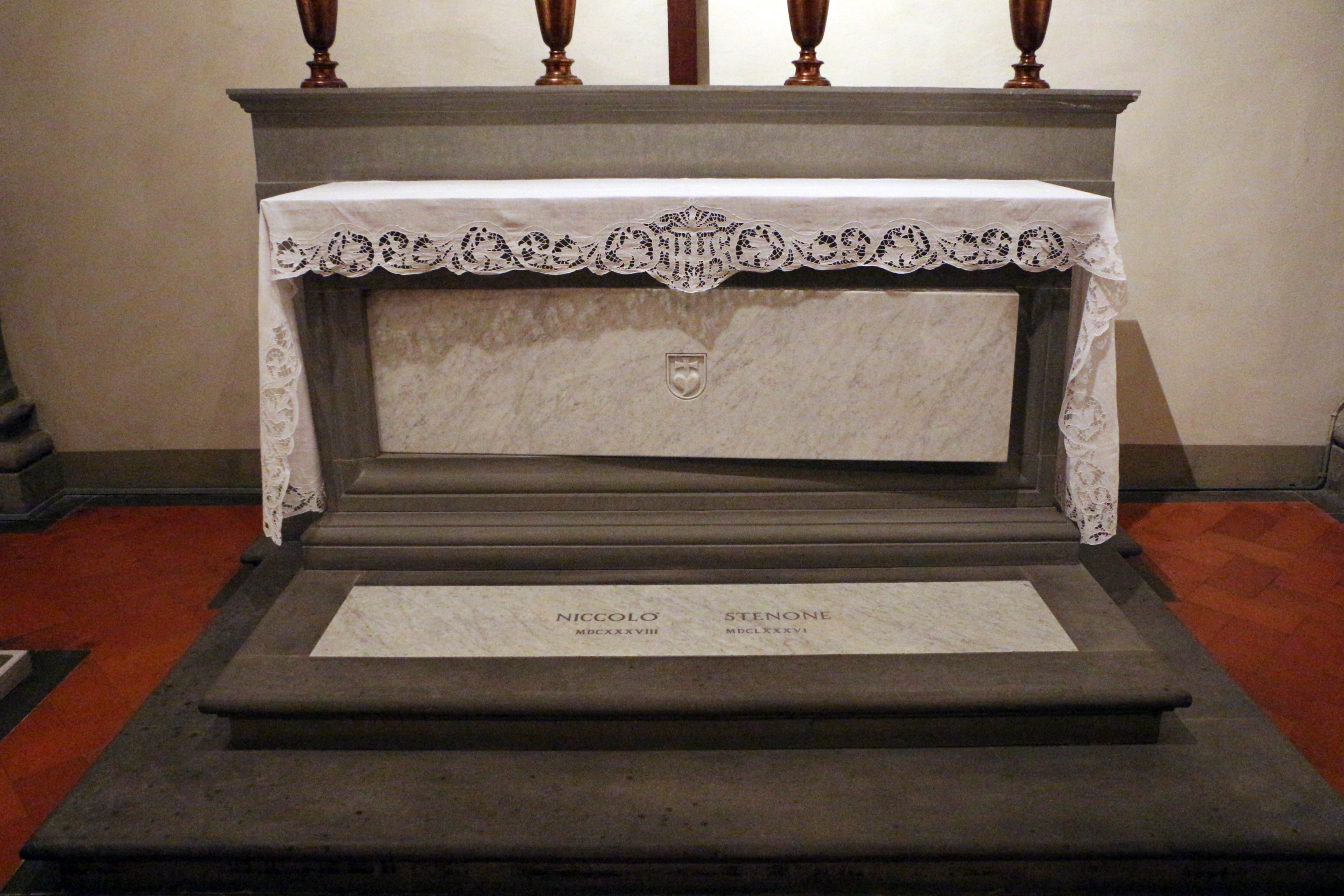 Interior of the Basilica of San Lorenzo (Florence)